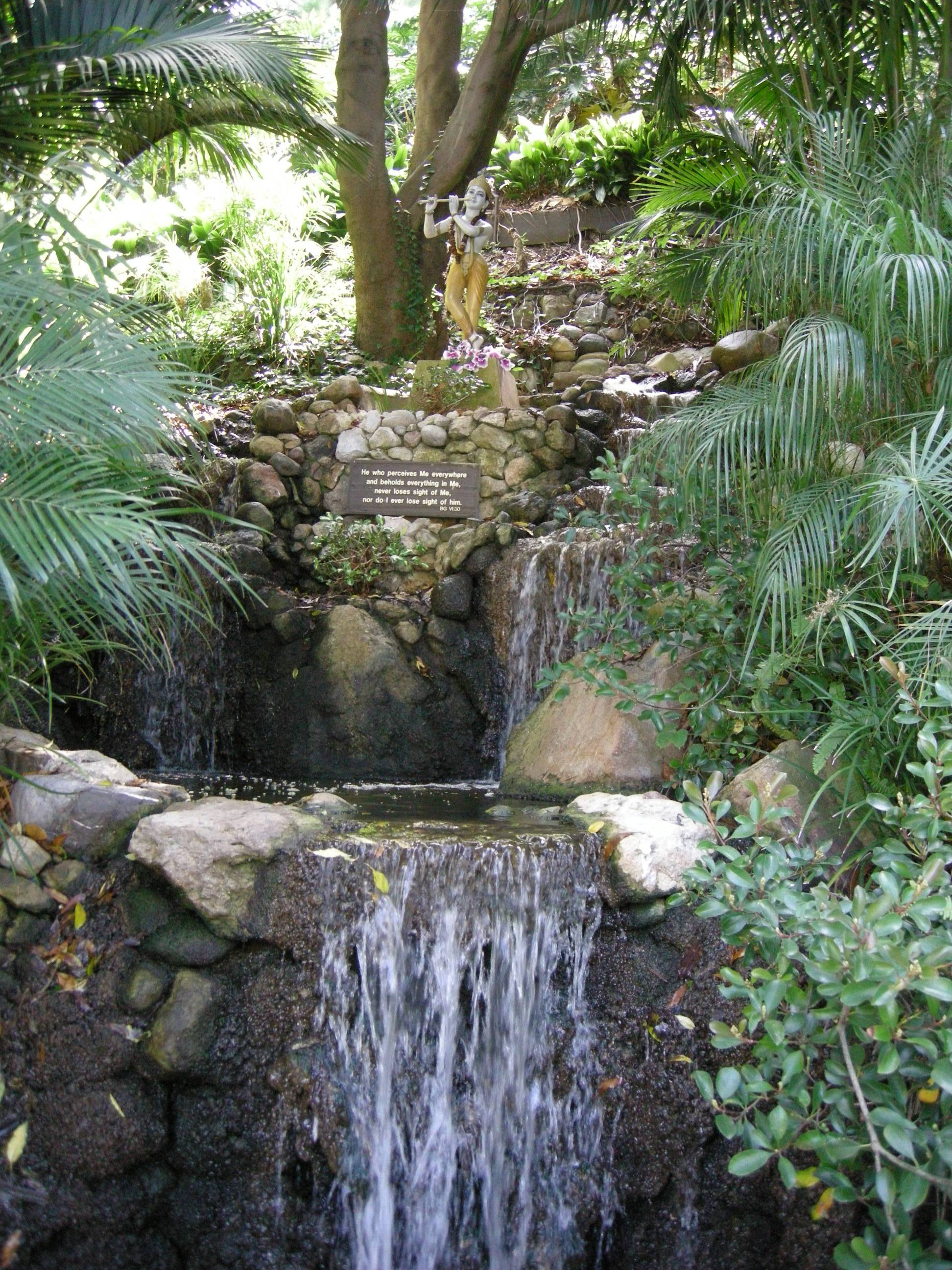 Krishna Sculptur on the Lake Shrine Los Angeles.